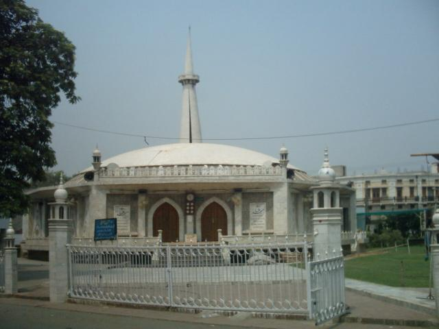 Masjid-e-Shuhda (Martyr's Mosque) on Mall Road, Pakistan